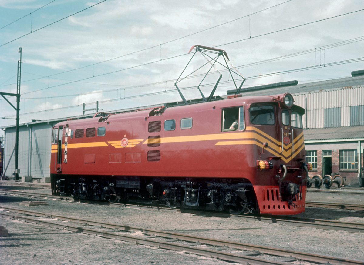 Class 5E1, Series 2 no. E610, ex works at Paardeneiland Depot, Cape Town